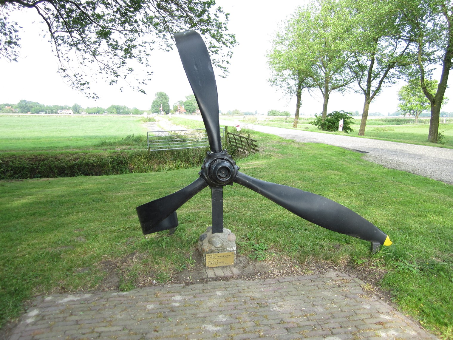 Twisted airplane propellor at the entrance of the churchyard of the hamlet of Skillaard (Schillaard), village of Mantgum, Friesland, the Netherlands, in remembrance of the Allied war plane that crashed not far from here in World War II.